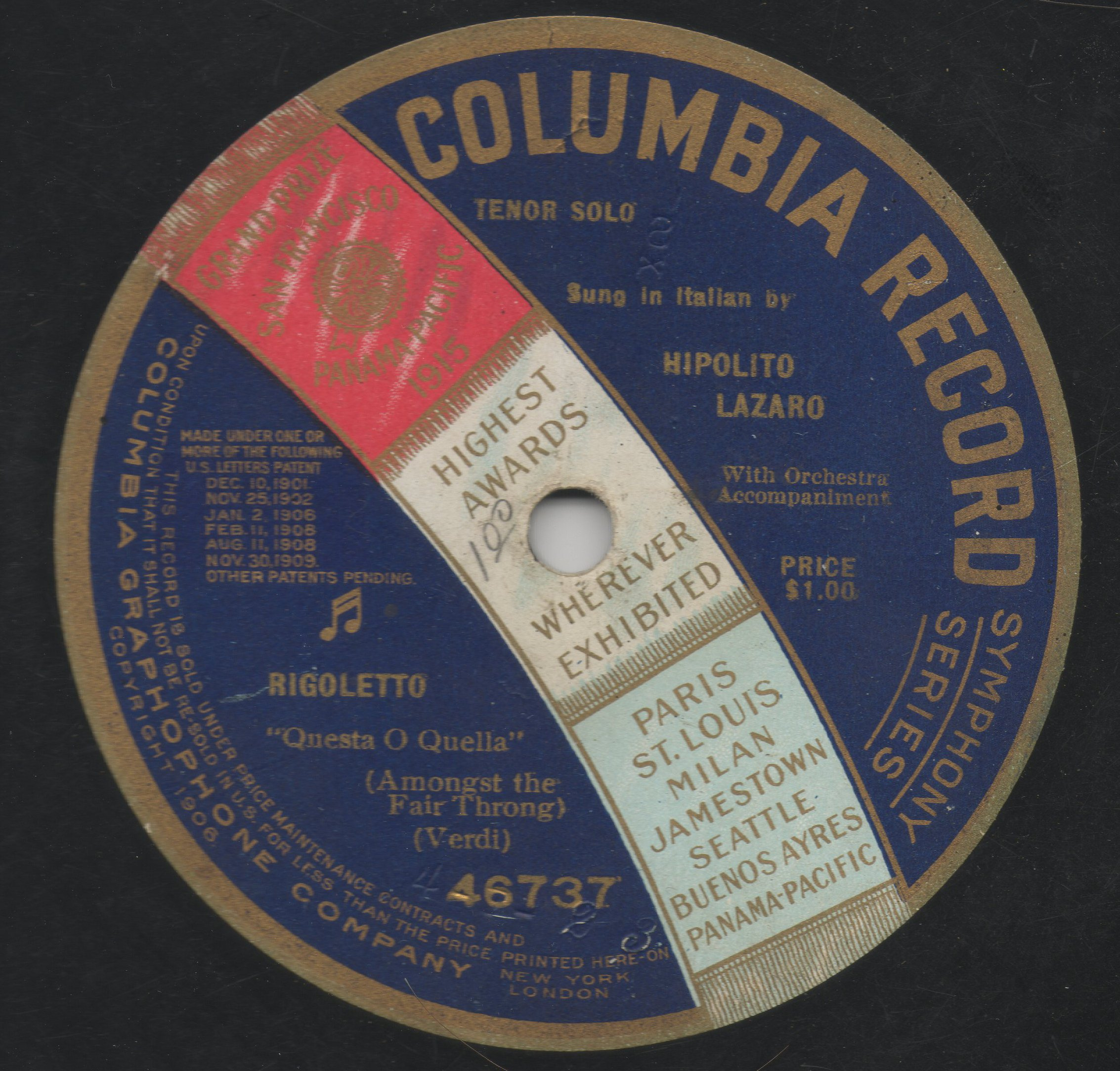 Example of the Columbia Symphony Series label, ca. 1915-1923. This label was Columbia's response to the popular Victor Red Seal series. This particular record is catalog number 46737, with Hipolito Lazaro singing Questa o Quella from Verdi's opera Rigoletto.